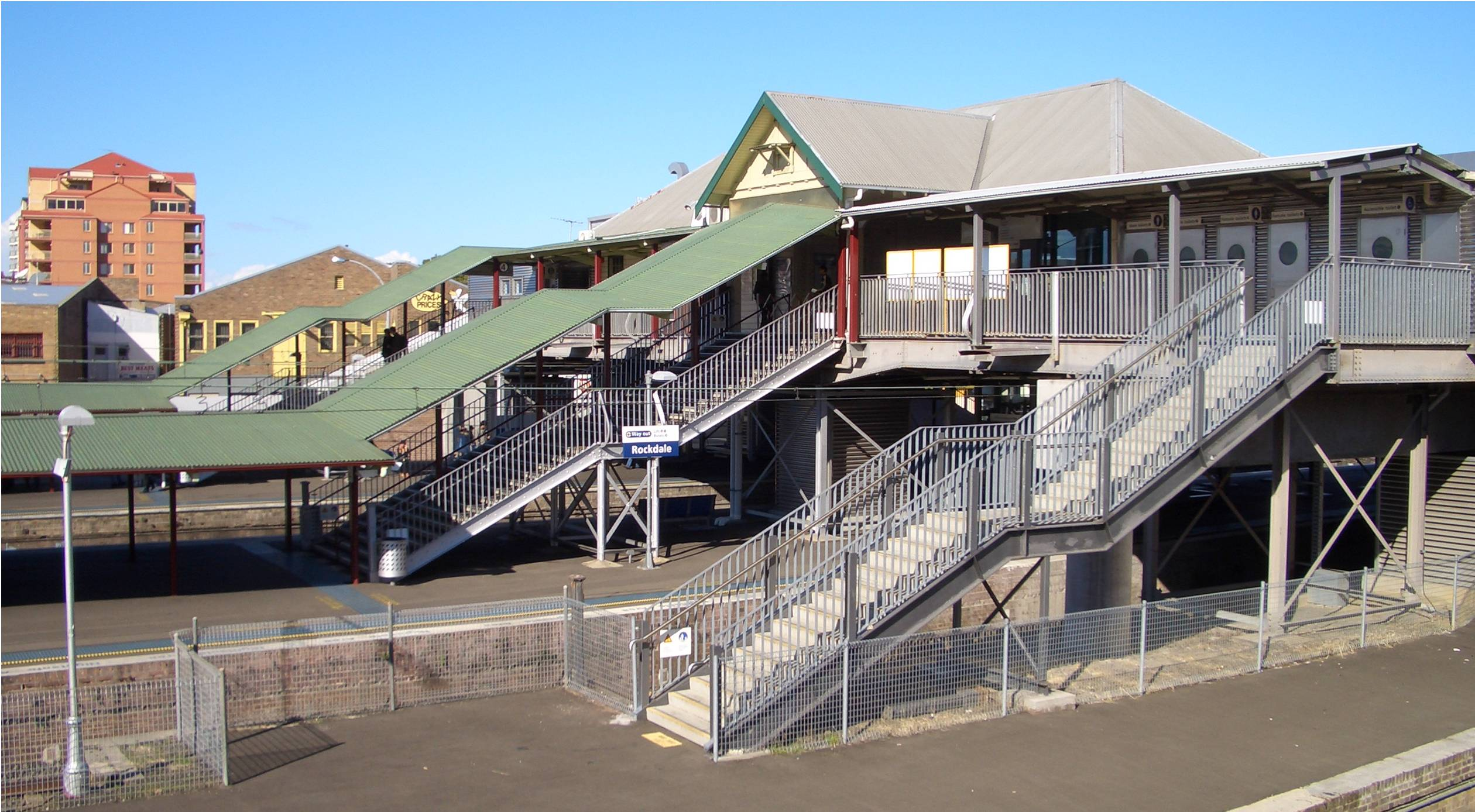 Rockdale railway station, Sydney